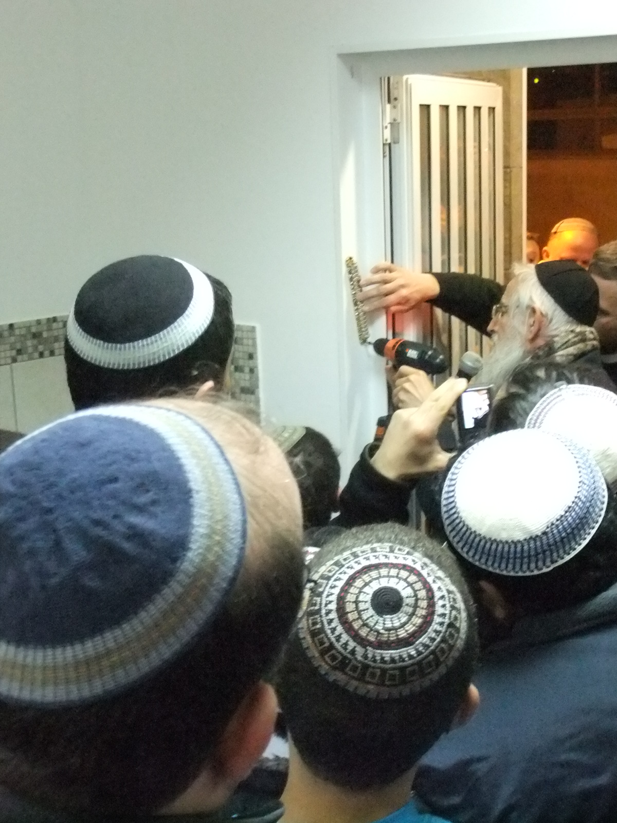 Rabbi Zalman Melamed placing a Mezuzah in a Beit Midrash of a Junior high school in Beit el